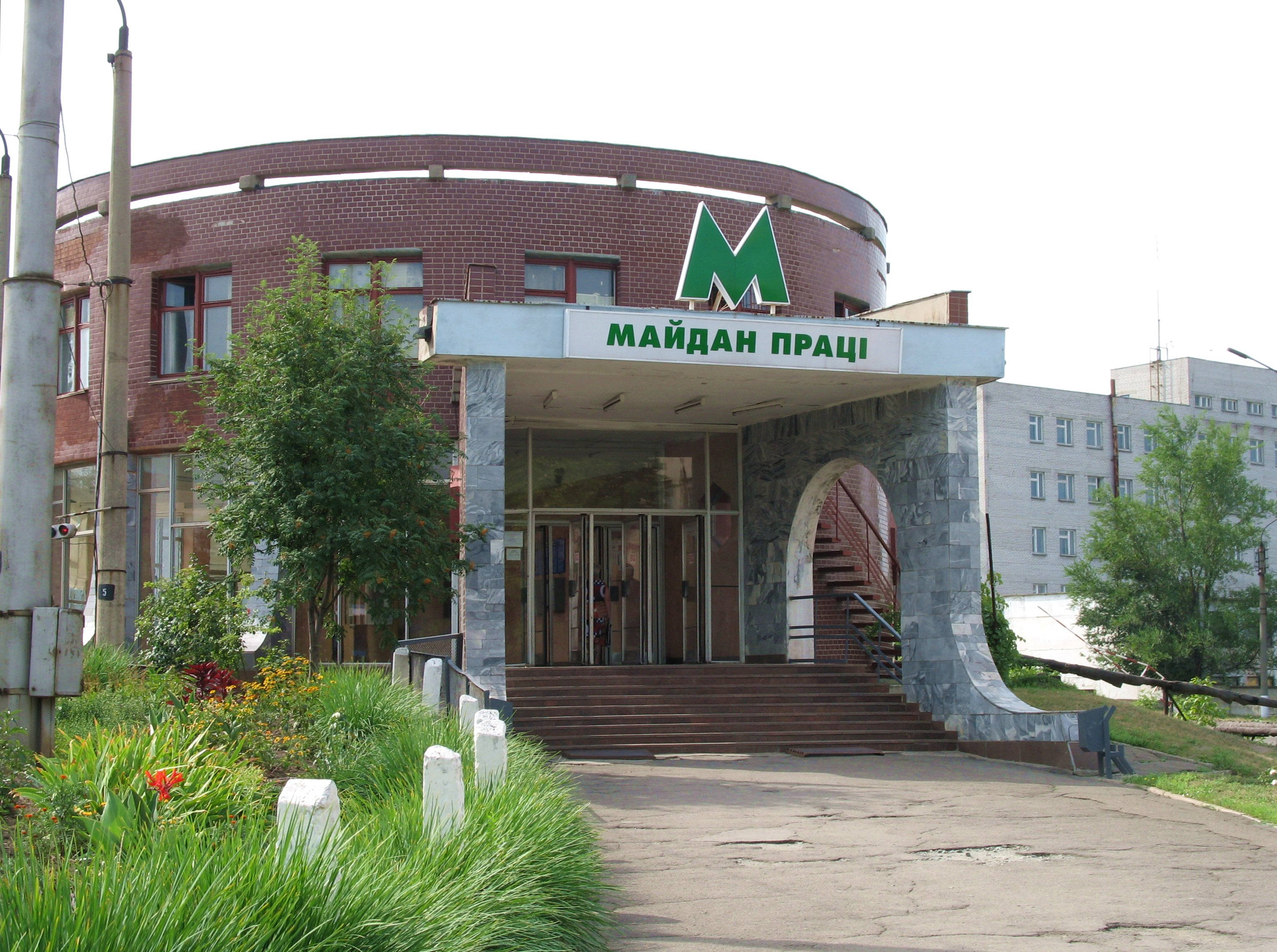 Entrance to Maidan Pratsi metro station, Kryvyi Rih Metrotram